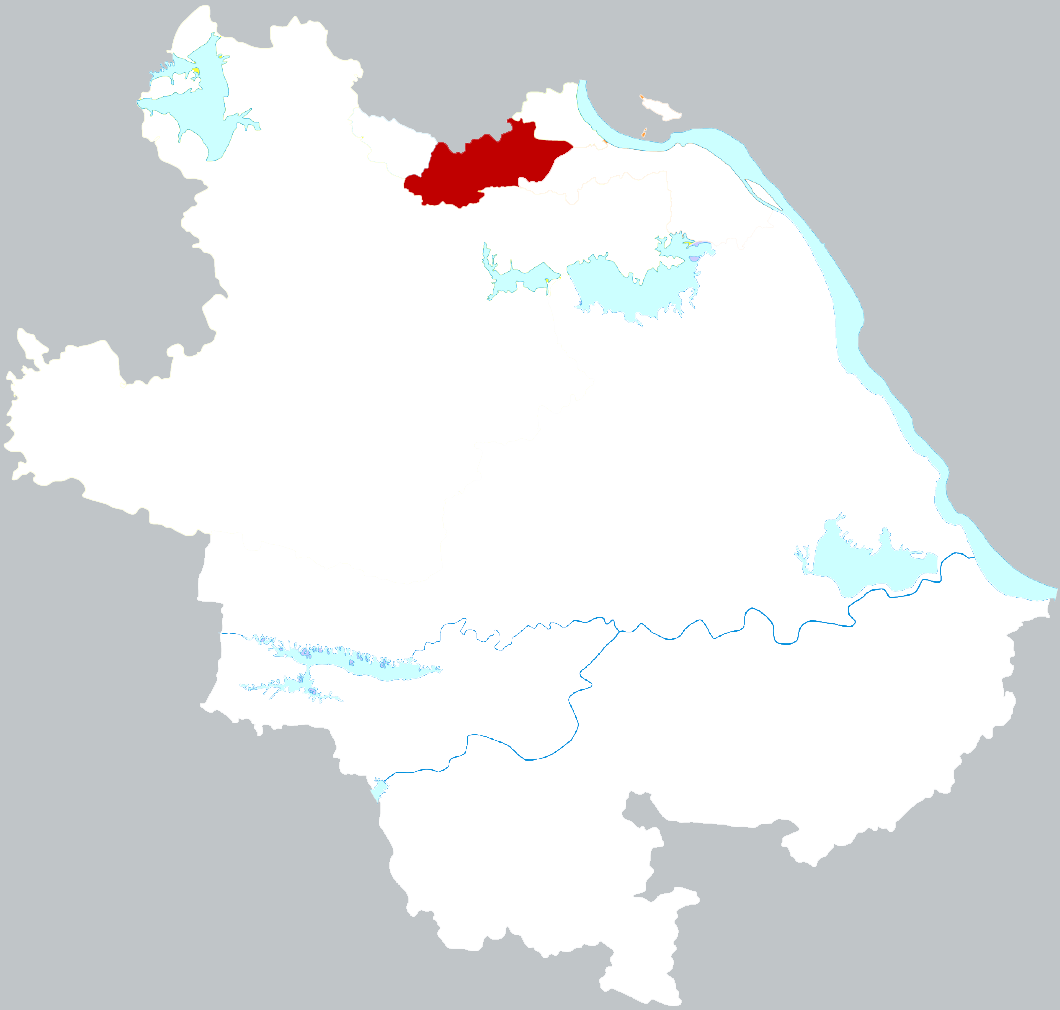 Location of Xialu district in Huangshi city, China